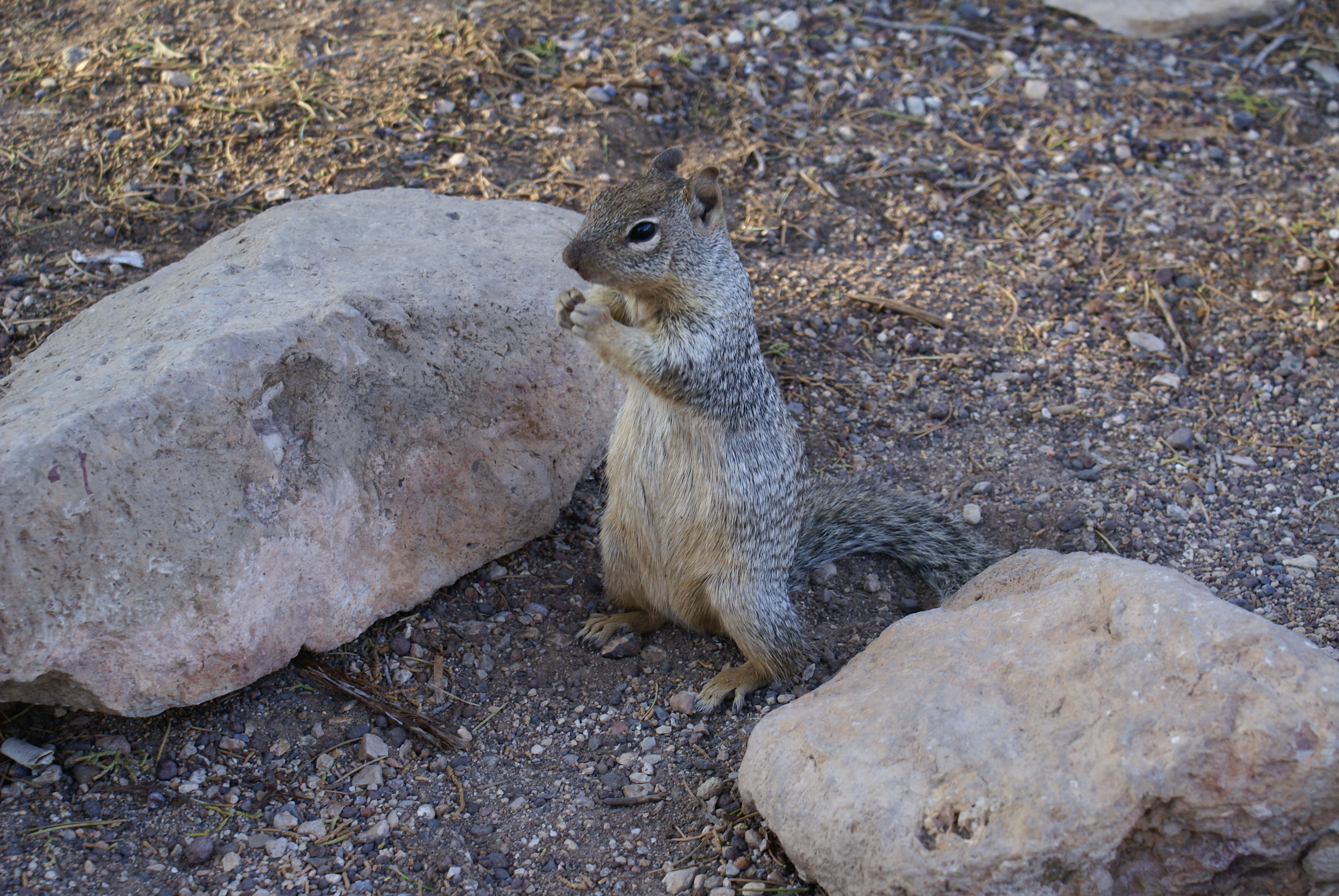 Rock Squirrel in Grand Canyon National Park